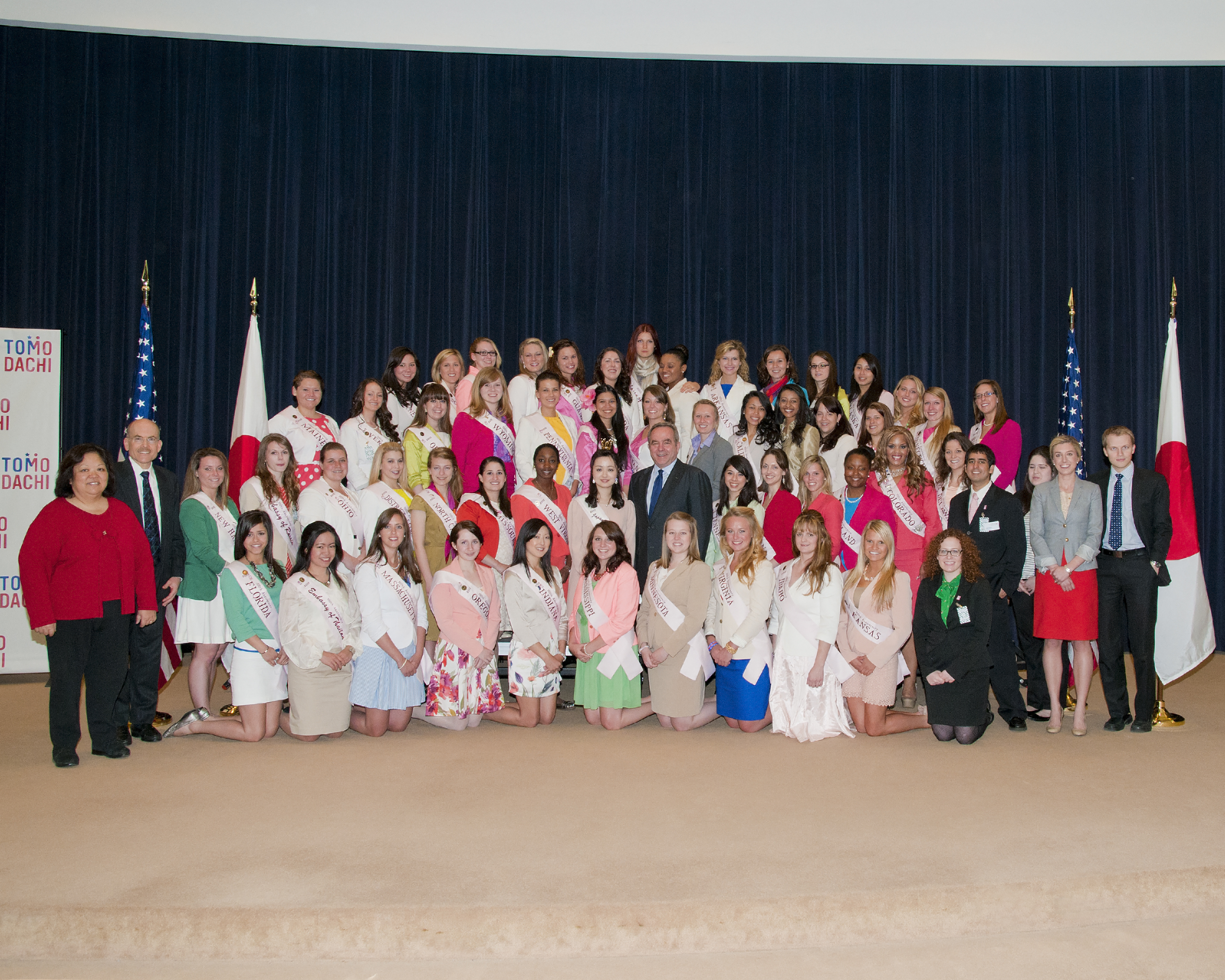 Participants at the Cherry Blossom Centennial Event hosted by the Department of State pose for a photo. Participants, included 50 Cherry Blossom Princesses, National Cherry Blossom Festival Goodwill Ambassadors, Assistant Secretary of State for East Asian and Pacific Affairs Kurt Campbell, and Special Adviser to the Secretary of State for Global Youth Issues Ronan Farrow.